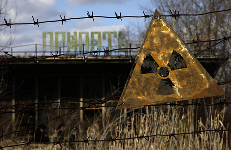 A radioactive sign hangs on barbed wire outside a café in Pripyat.